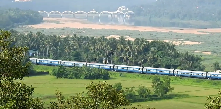 Kuttippuram, Malappuram district, Kerala, India